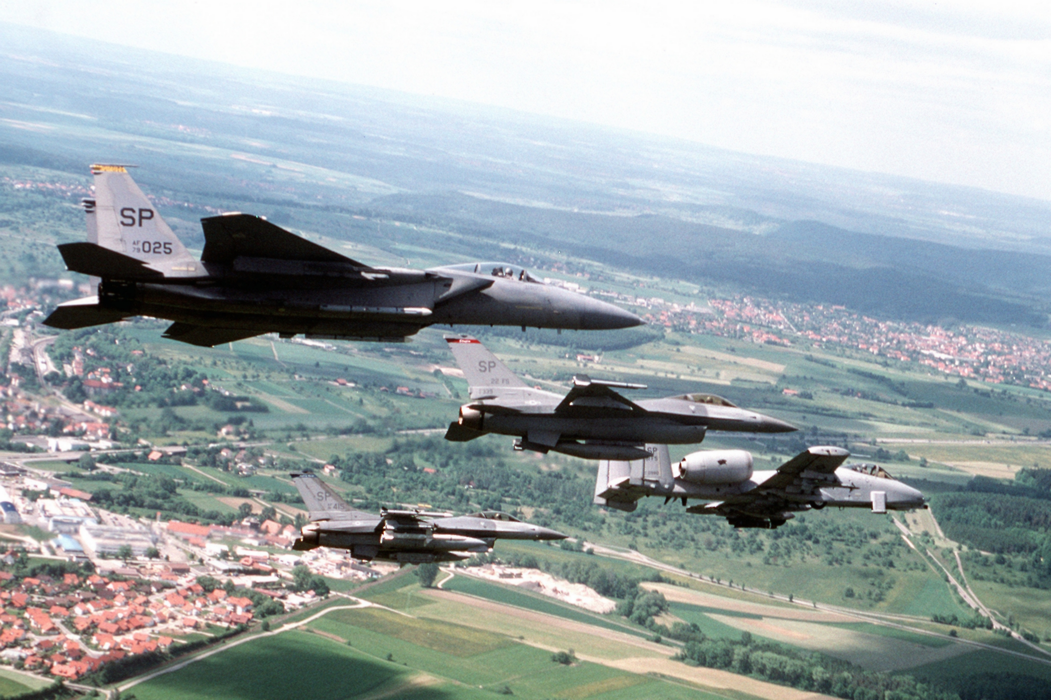 U.S. Air Force fighters from the four squadrons of the 52nd Fighter Wing, based at Spangdahlem Air Base, Germany, in flight over Germany in 1997: (front to back) McDonnell Douglas F-15C Eagle, 53rd Fighter Squadron (yellow and black tail stripe/tiger stripes); General Dynamics F-16C Fighting Falcon, 22nd FS (red tail stripe); Fairchild A-10A Thunderbolt II, 81st FS (yellow tail stripe); F-16C, 23rd FS (blue tail stripe)